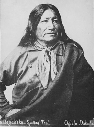 Lakota Chief